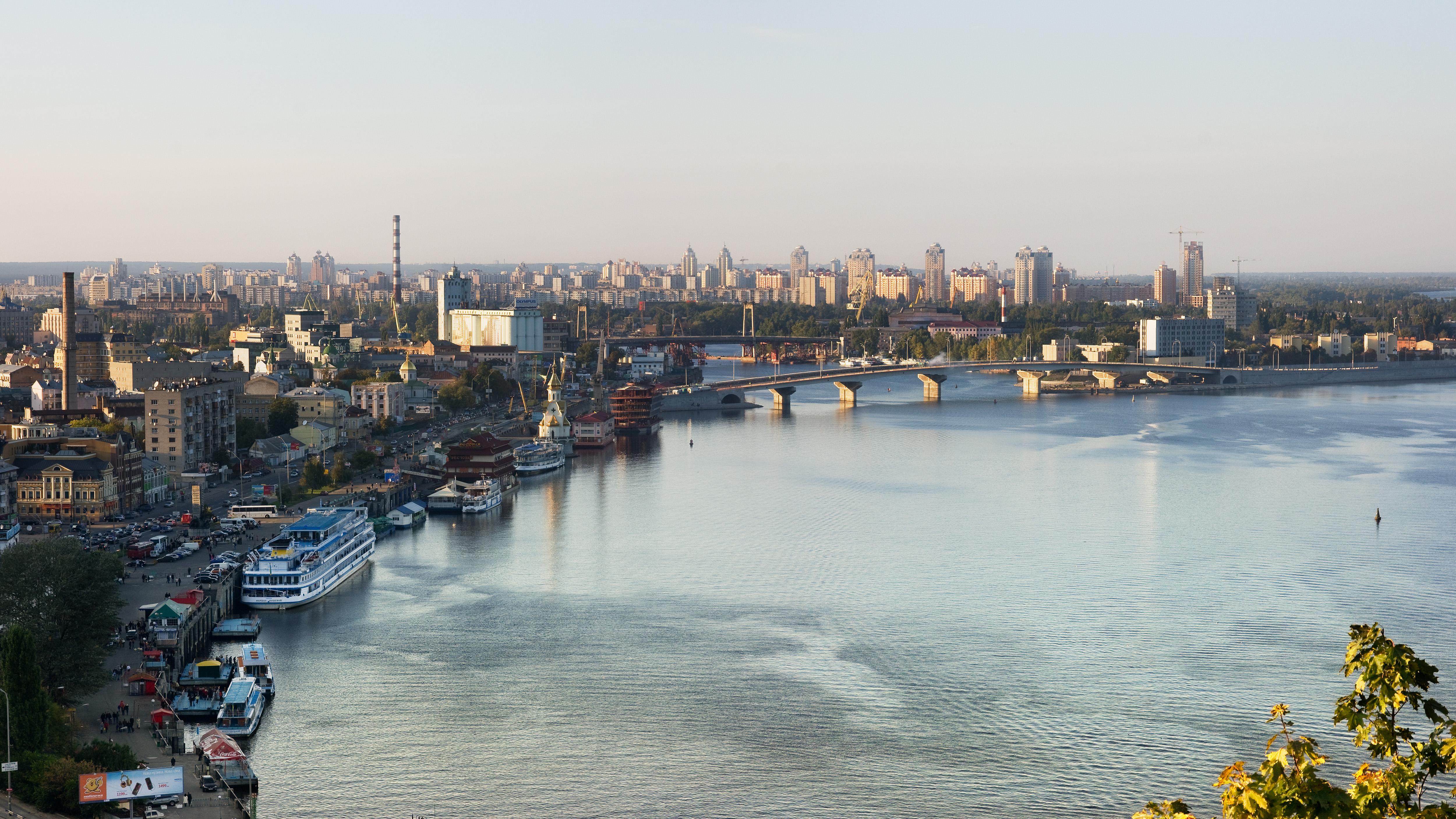 Dnepr river in Kiev